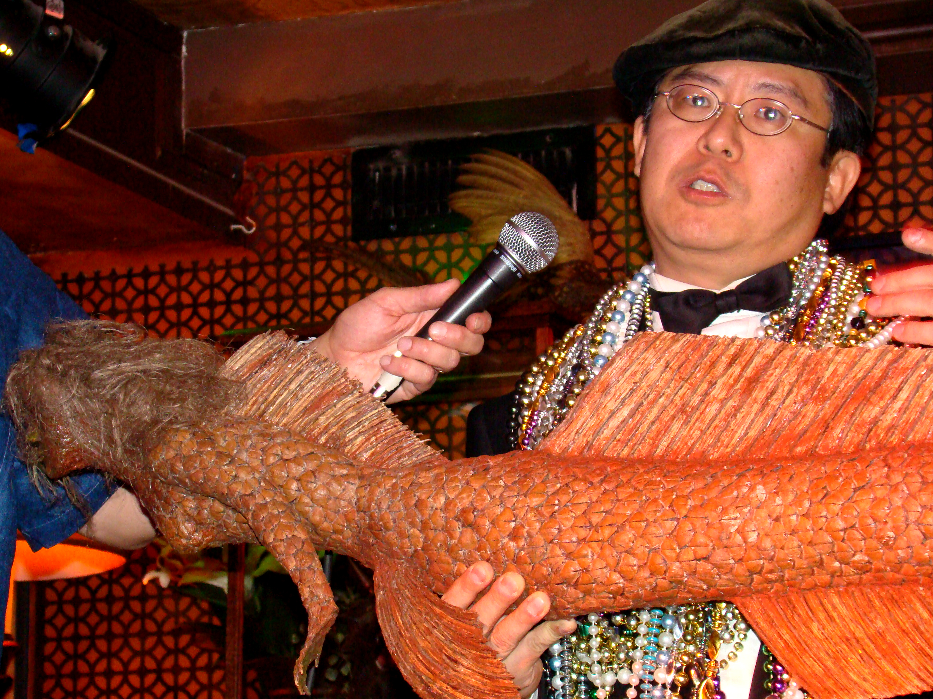 Takeshi Yamada holding his Fiji mermaid at the Carnivorous Nights taxidermy contest at Union Hall in Brooklyn